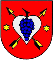 Coat of Arms of Erlenbach bei Marktheidenfeld